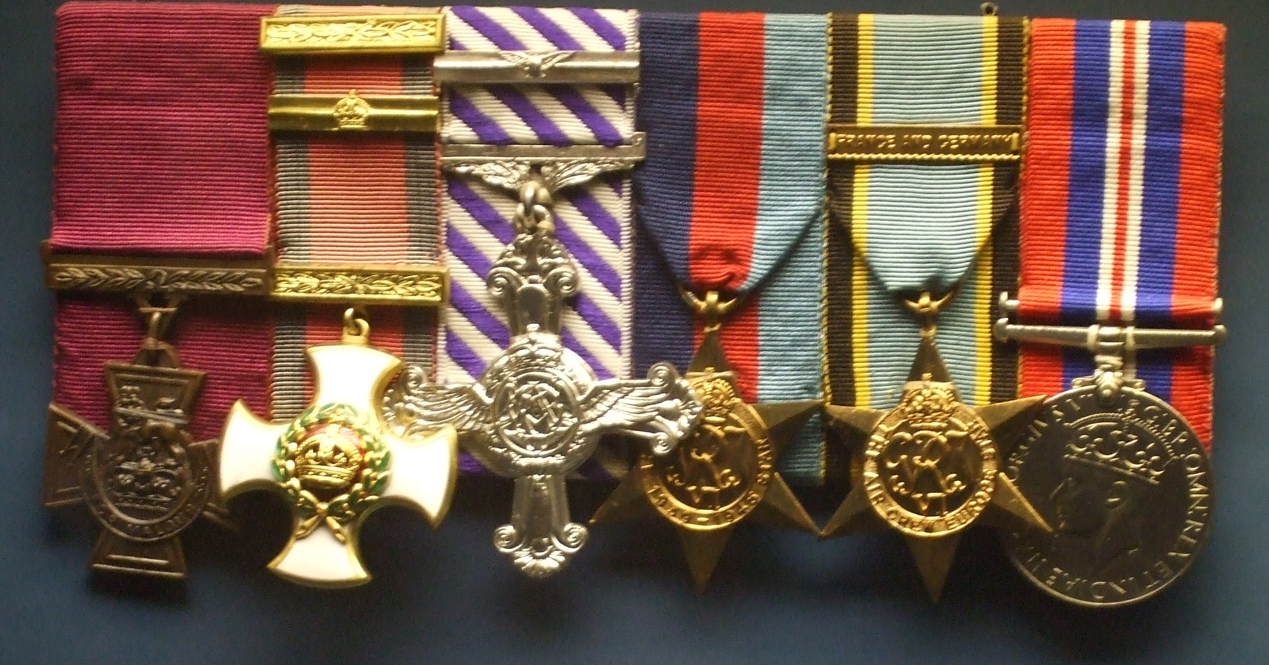 Guy Gibson Medals. From left to right Victoria Cross, Distinguished Service Order (with bar), Distinguished Flying Cross (with bar), 1939–45 Star, Air Crew Europe Star with 'France and Germany' clasp, War Medal 1939–1945.